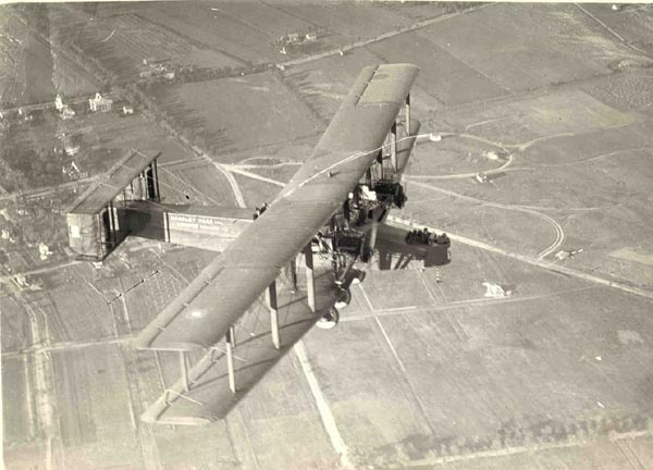 Handley-Page airplane "Atlantic" in flight during non-stop trip from New York to Chicago; 1919; {04.400/32} Source: Edison National Historic Site archive URL